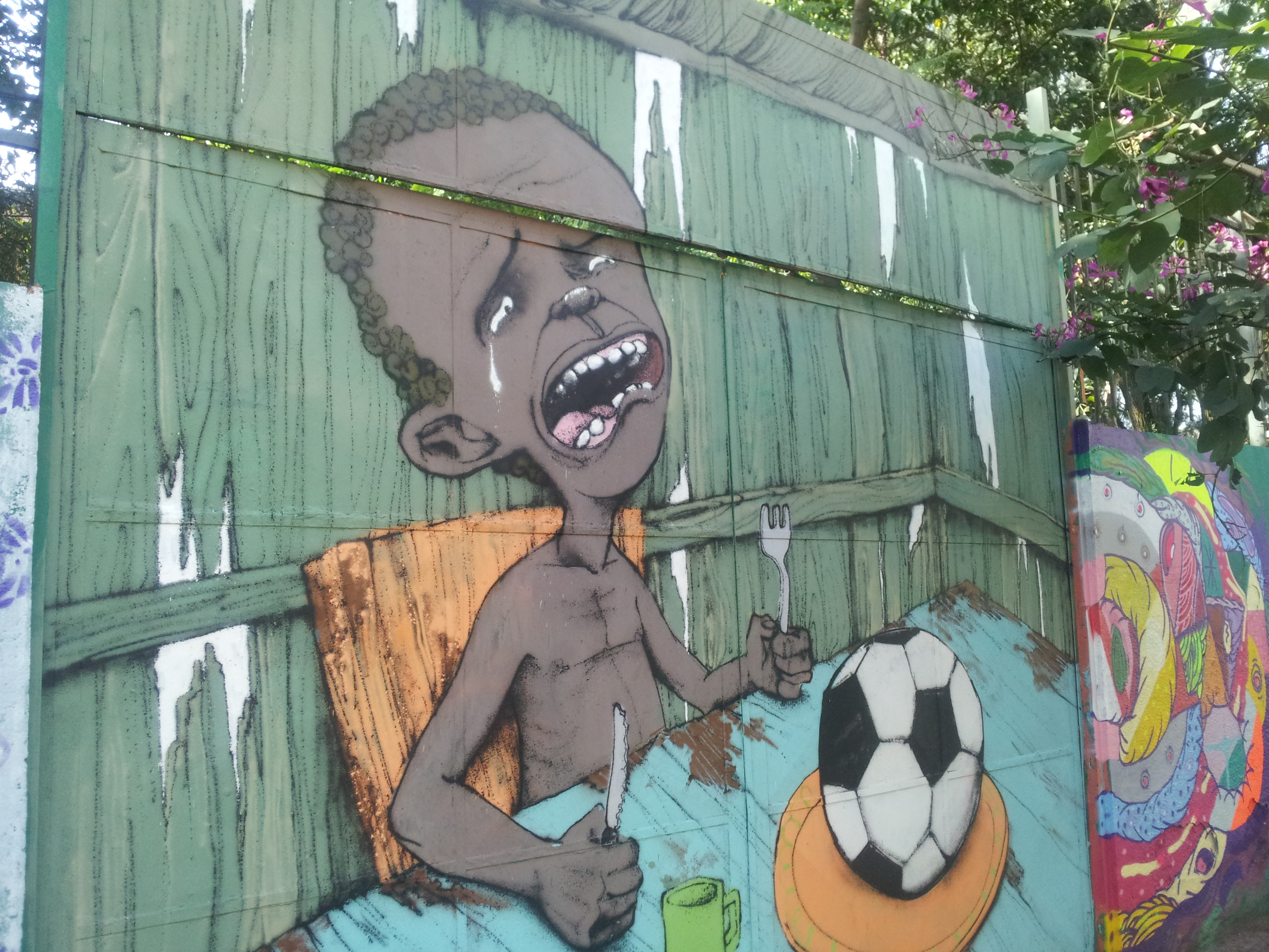 Graffiti by Paulo Ito in Rua Padre Chico 50, São Paulo, Brazil.